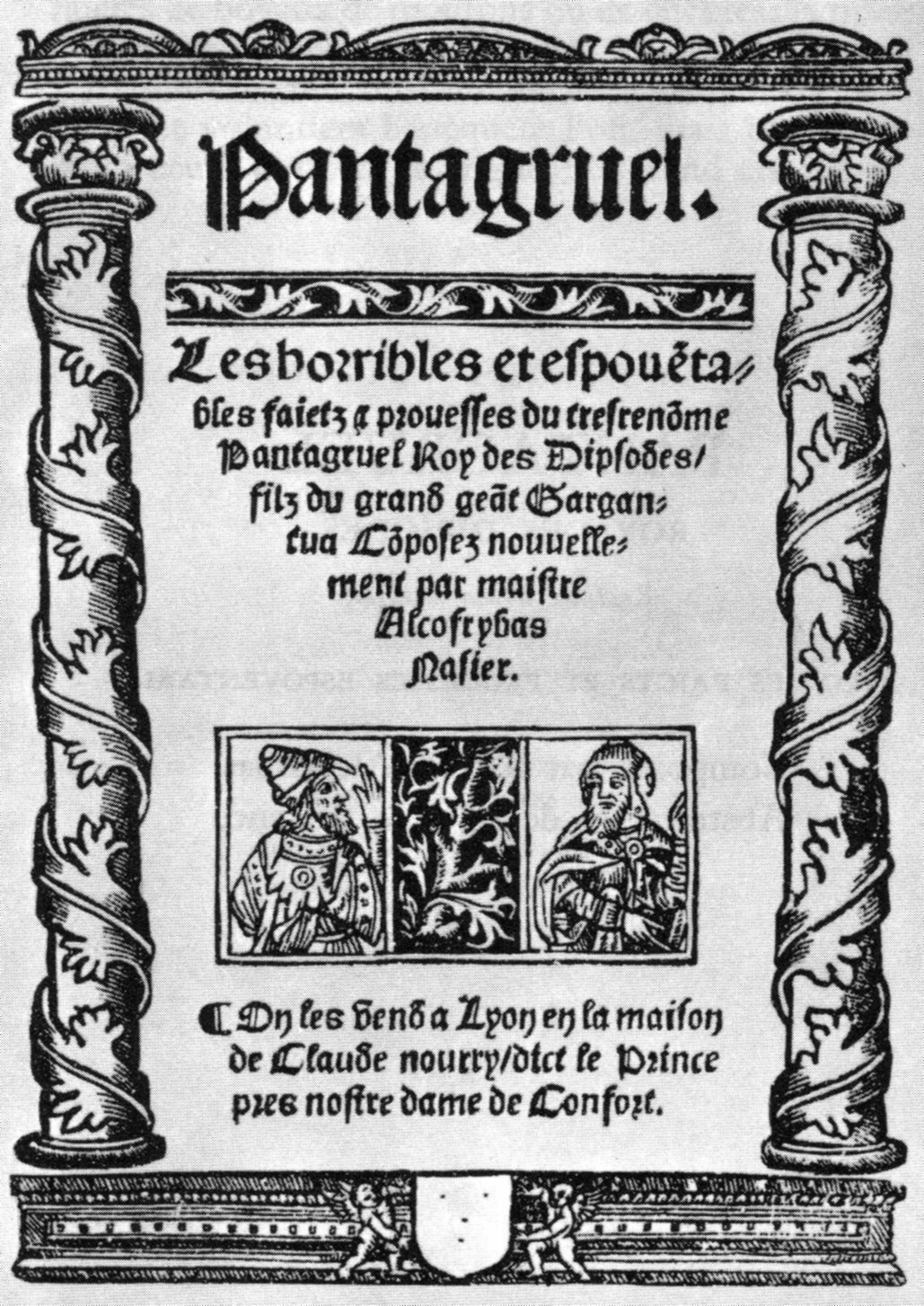 Title page of Rabelais, Pantagruel (Lyon, 1532)